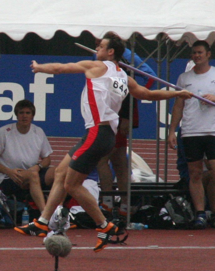 World Athletics Championships 2007 in Osaka - German javelin thrower Stephan Steding making one of his attempts during the qualification